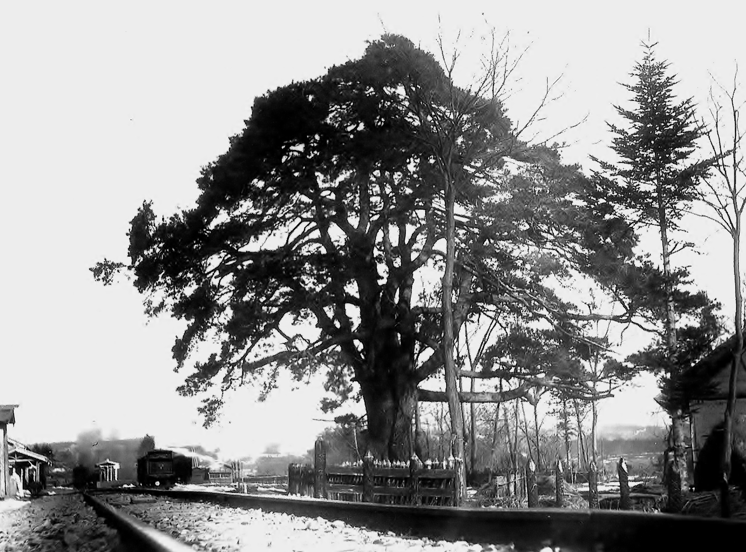 Shingen-ko Hatakake-matsu pine tree 1906